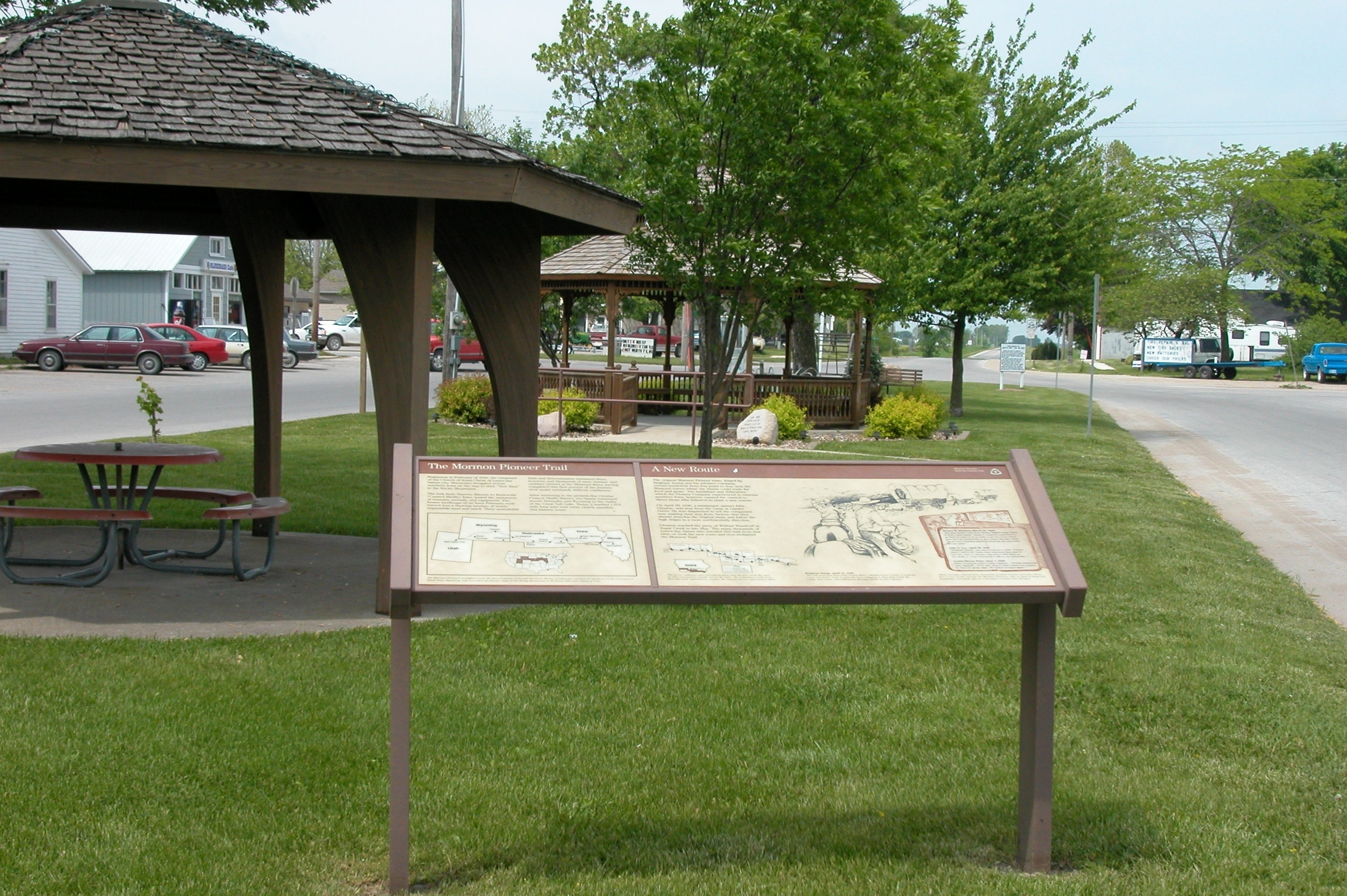 ATR-The Mormon Pioneer Trail Across Iowa in 1846-13 Keywords: drakesville park; mopi; mormon pioneer national historic trail